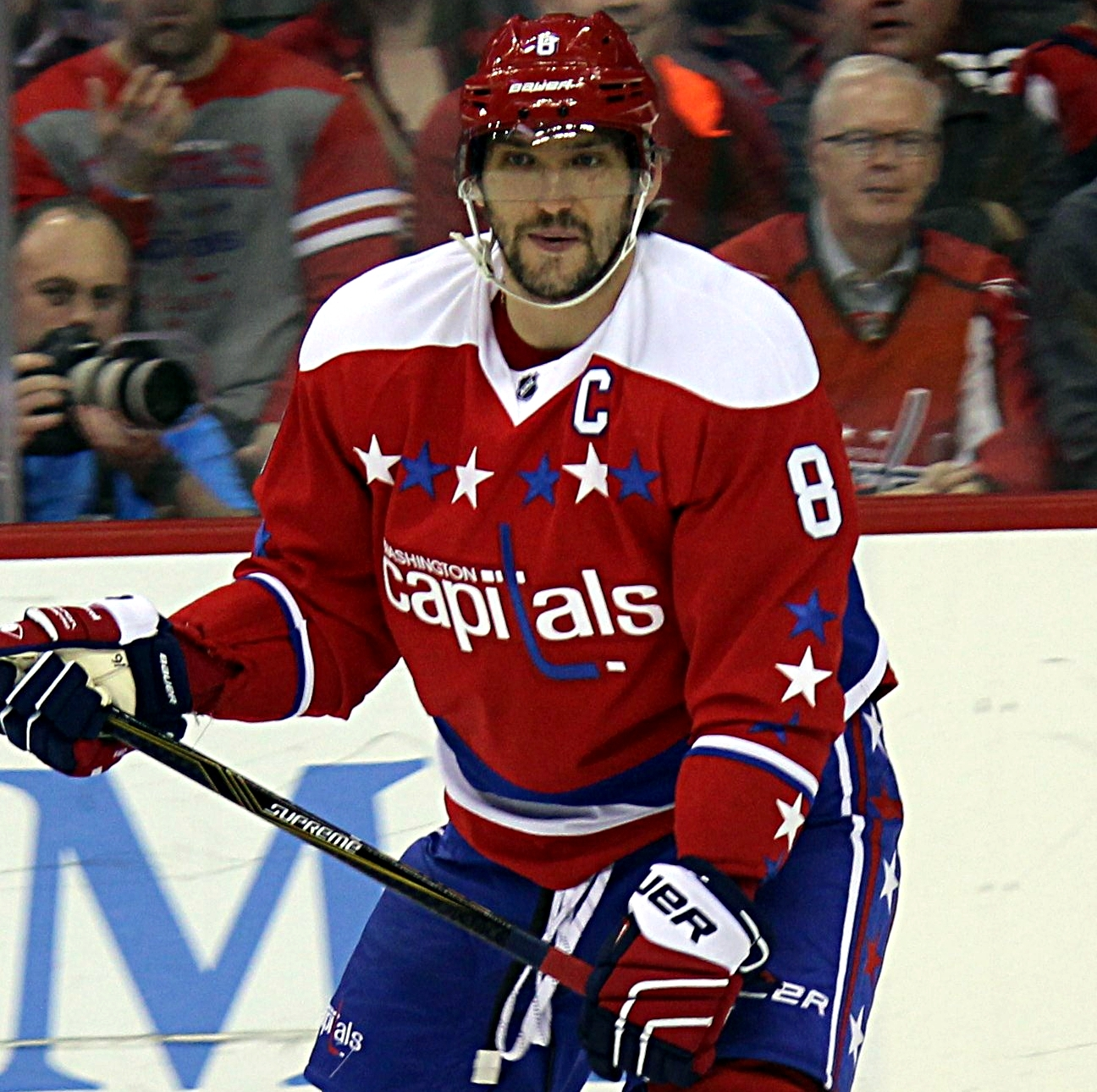 Washington Capitals captain Alexander Ovechkin warms up prior to a game against the Pittsburgh Penguins, March 1, 2016, at Verizon Center in Washington, D.C.